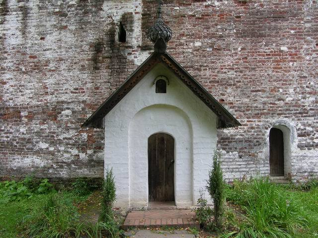 Russia. Yaroslavl Oblast. Borisoglebsky Monastery in Borisoglebsky. St. Irinarkh Skete